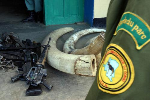 Parc national des Virungas.